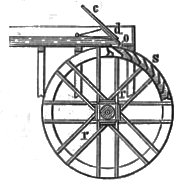 Water wheel - over-shot